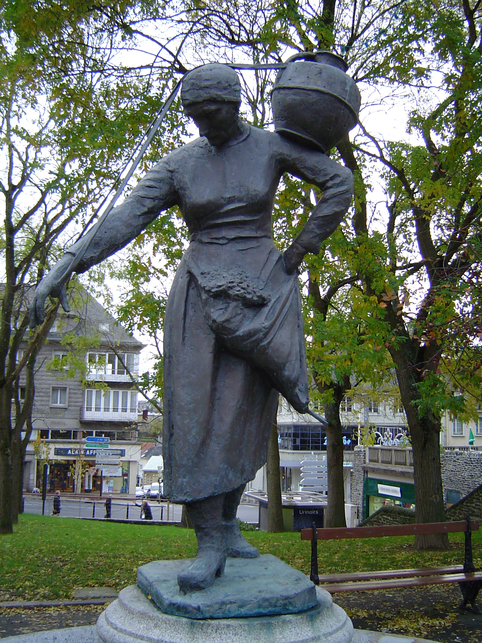 a reproduction of a statue of Arthur Le Duc